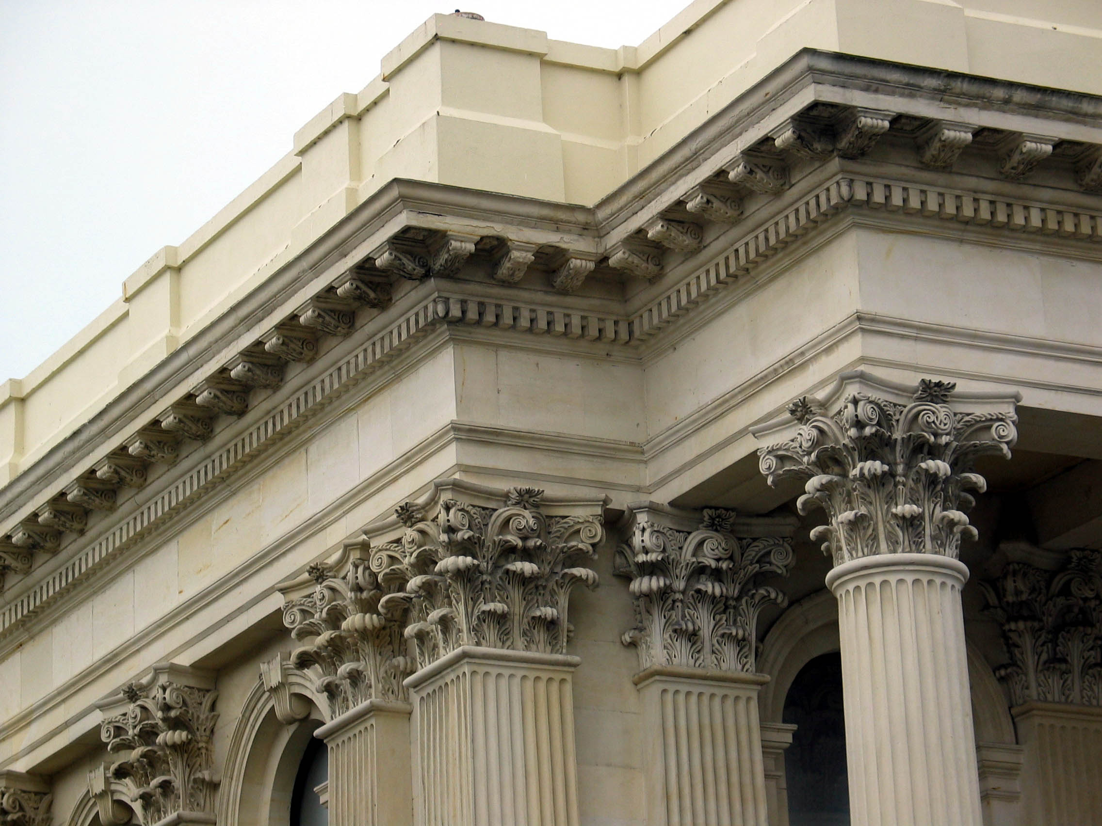 This is a detail of the former Bank or New South Wales, in Oamaru, New Zealand.